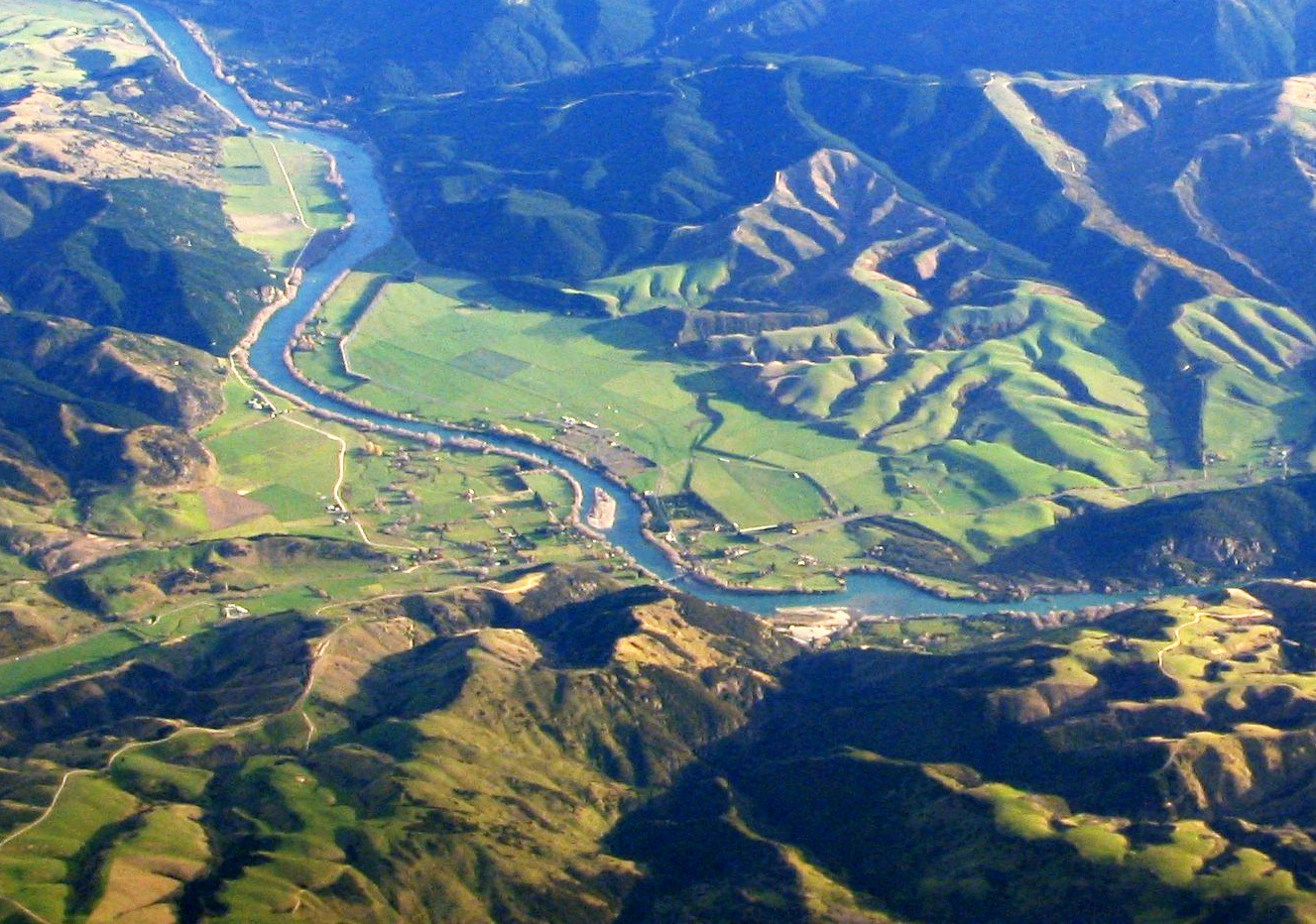 Aerial photo of Beaumont area in Otago, New Zealand, looking southwest, from a commerical jet flight between Dunedin and Sydney. State Highway 8 runs from left to right across the photo (only visible in the right half), and crosses the Clutha river just below centre.